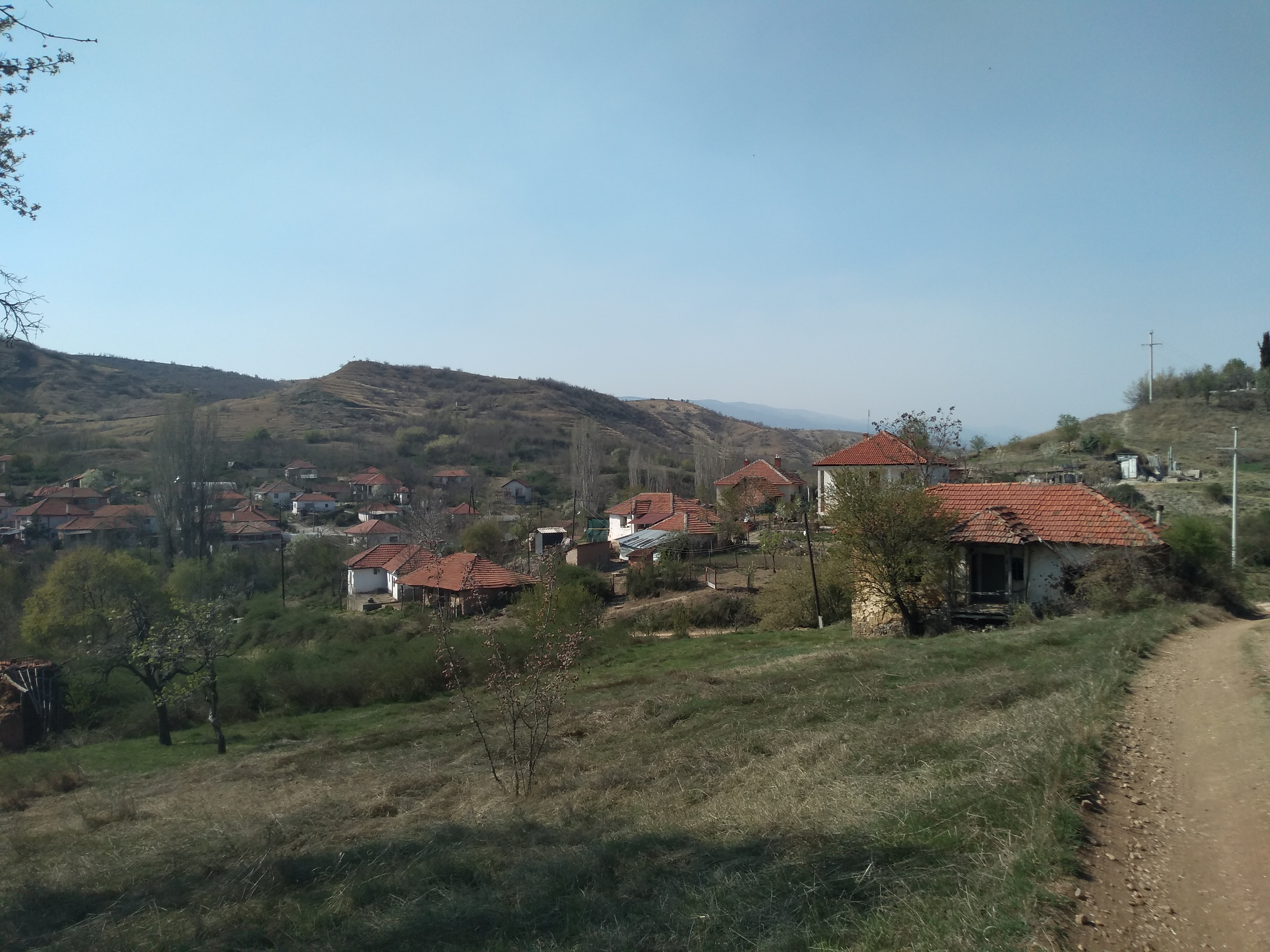 village of Bucinci, in Skopje region, Macedonia